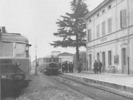 Soncino railway station in 1956